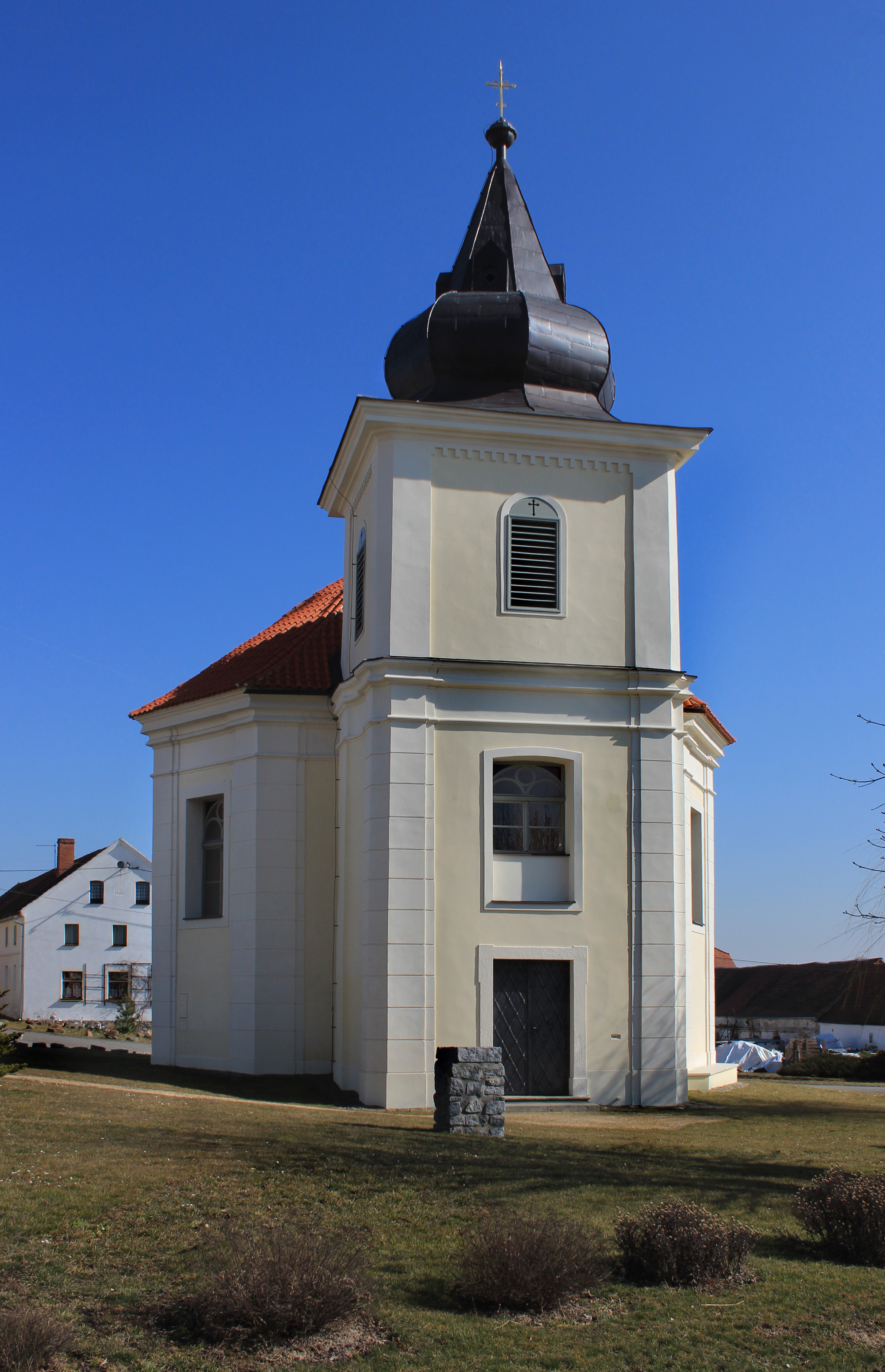 Chapel in Ostrov u Stříbra, part of Kostelec, Czech Republic.